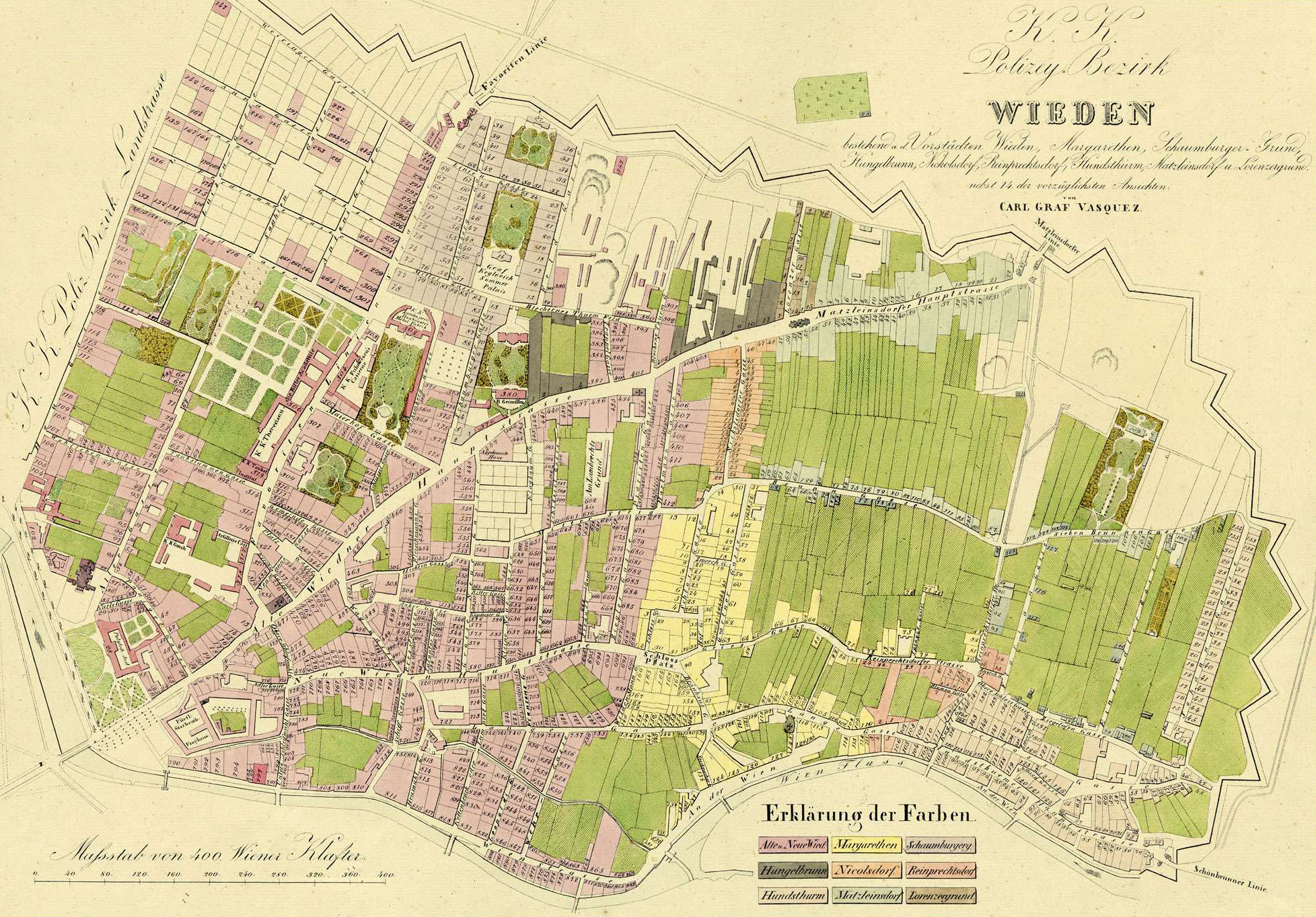 Map of Vienna, Wieden, approx. 1830